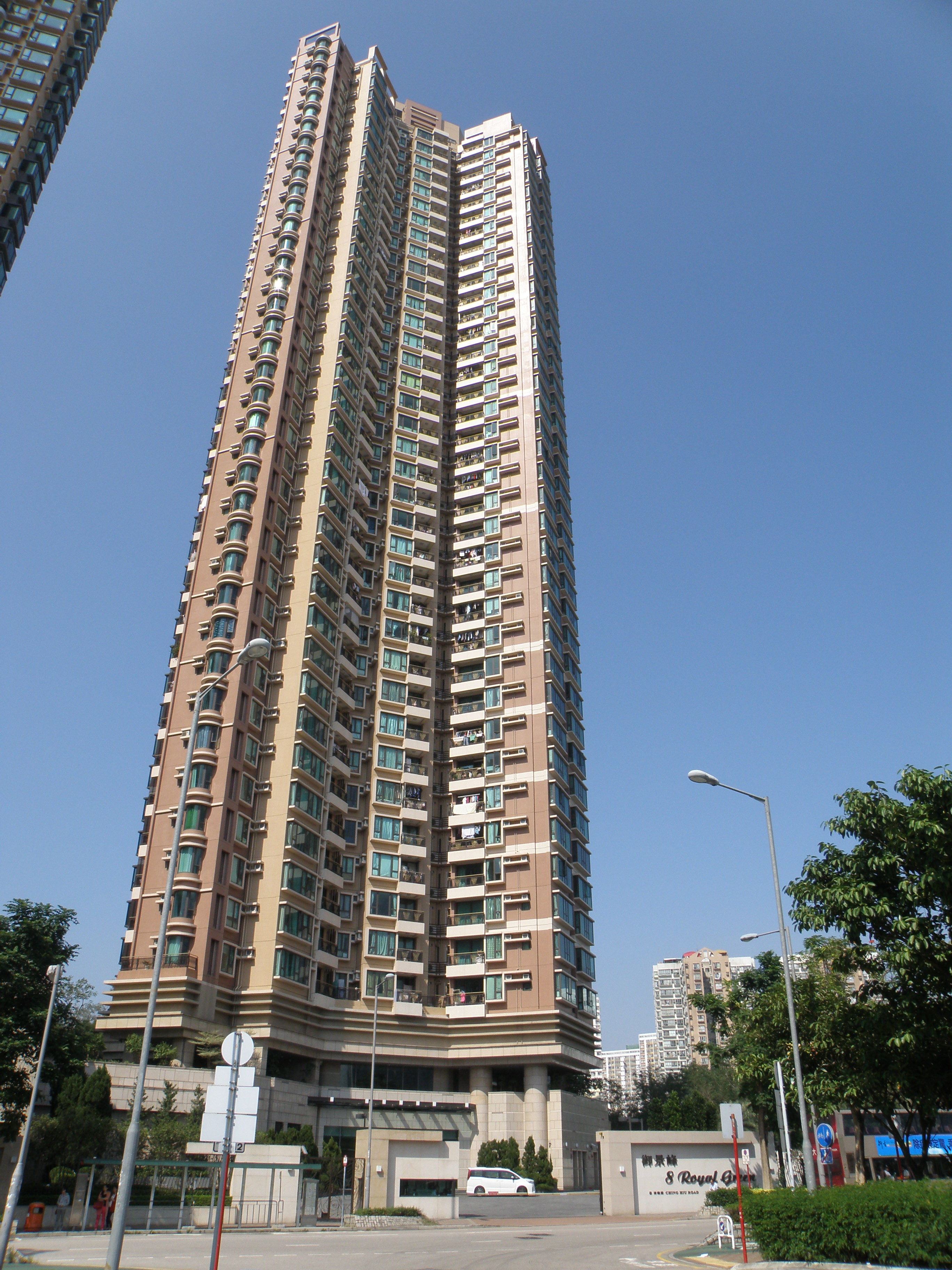 8 Royal Green in Sheung Shui, Hong Kong.